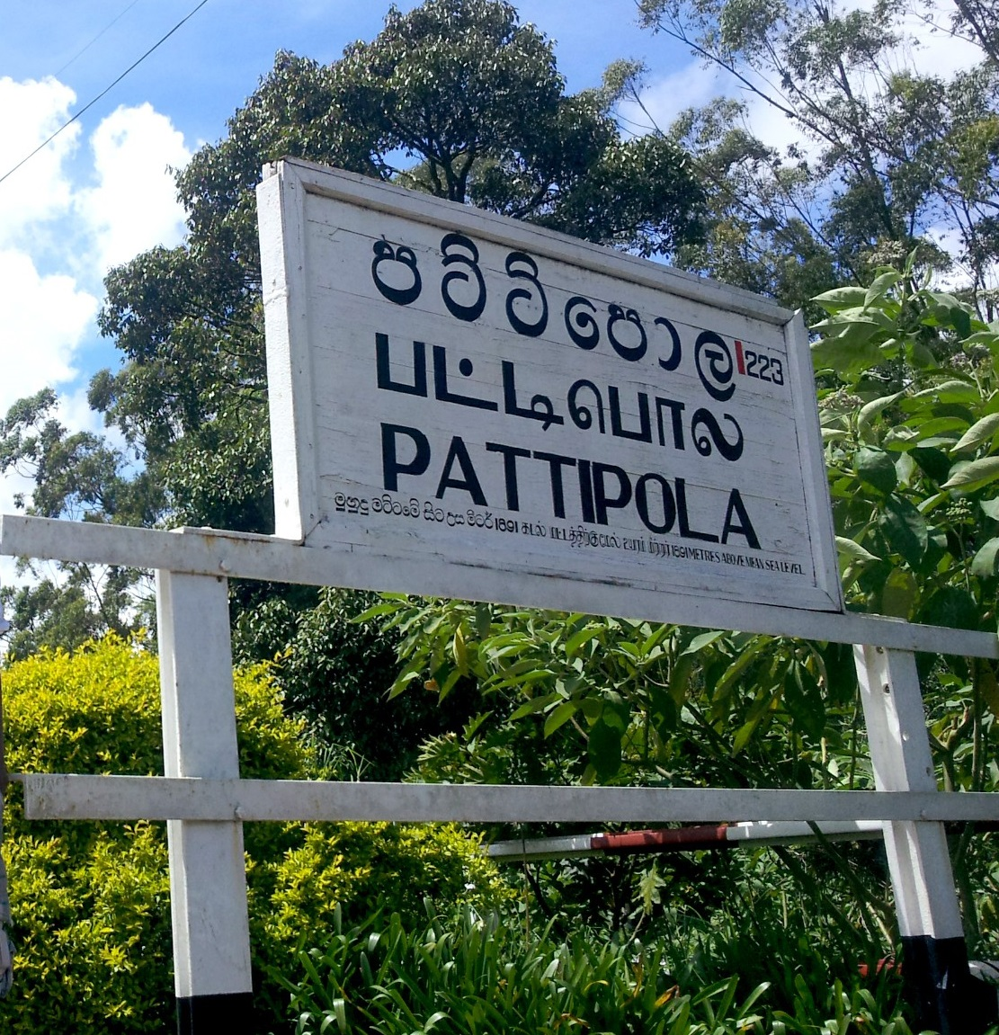 Pattipola railway station board sign, the highest railway station in Sri Lanka with an elevation of 1,897.5 m (6,225 ft)